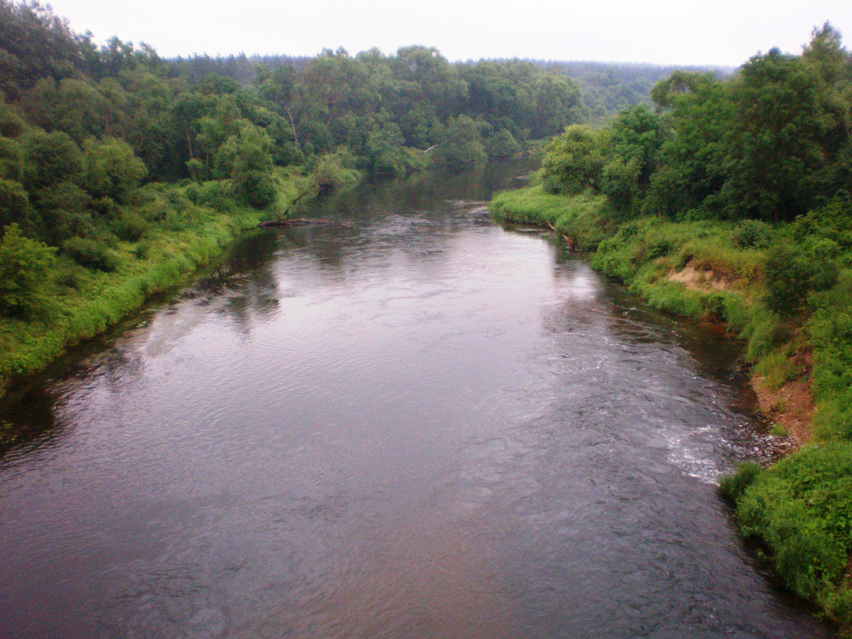 Šventoji River near Šventupė, Lithuania